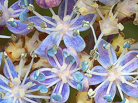 Real flowers of hydrangea